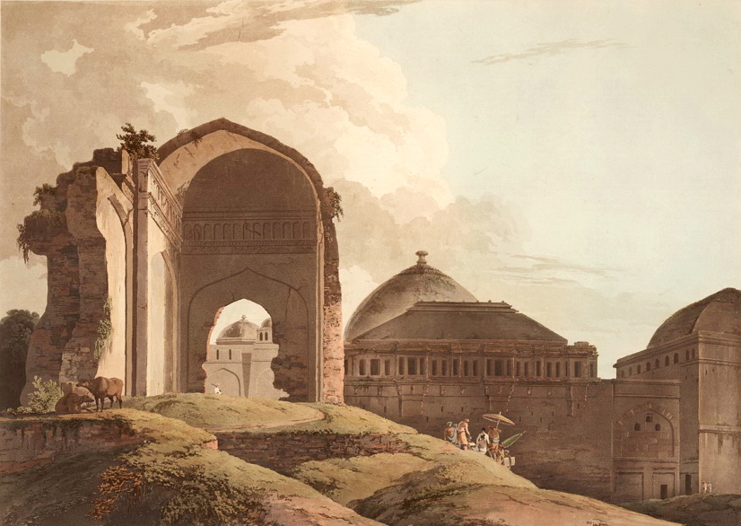 Ruins of the Palace, Madura [Madurai], drawn by Thomas Daniell and engraved by himself and William Daniell, published in Oriental Scenery (London 1797)